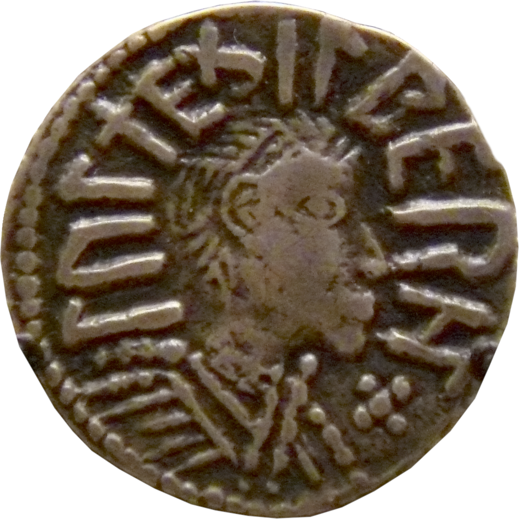 One of the three known coins of Æthelberht II, King of the East Angles